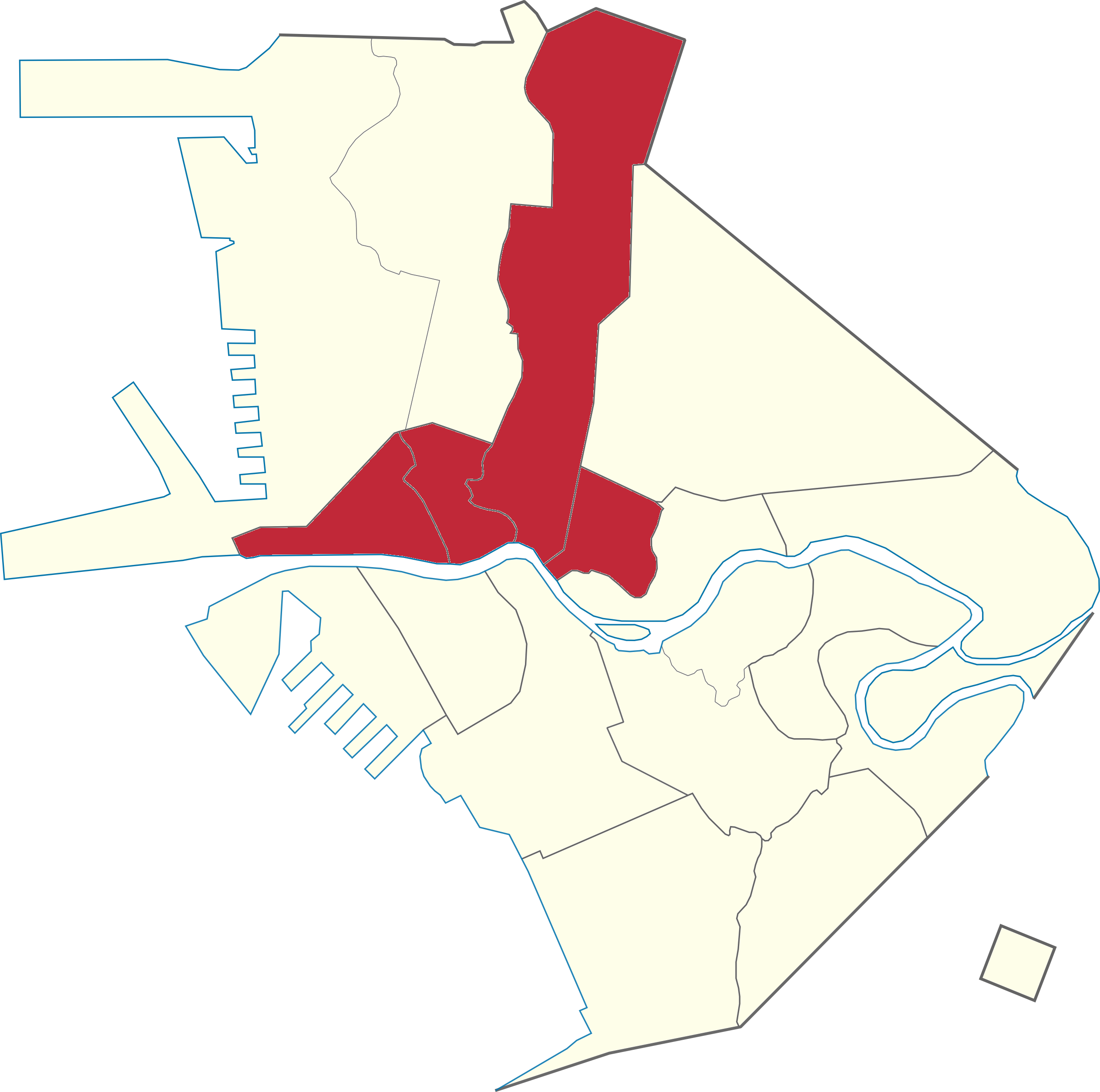 Location of the 3rd Legislative district of Manila.